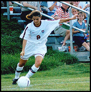 Us womans soccer legend Mia Hamm takes corner kick.